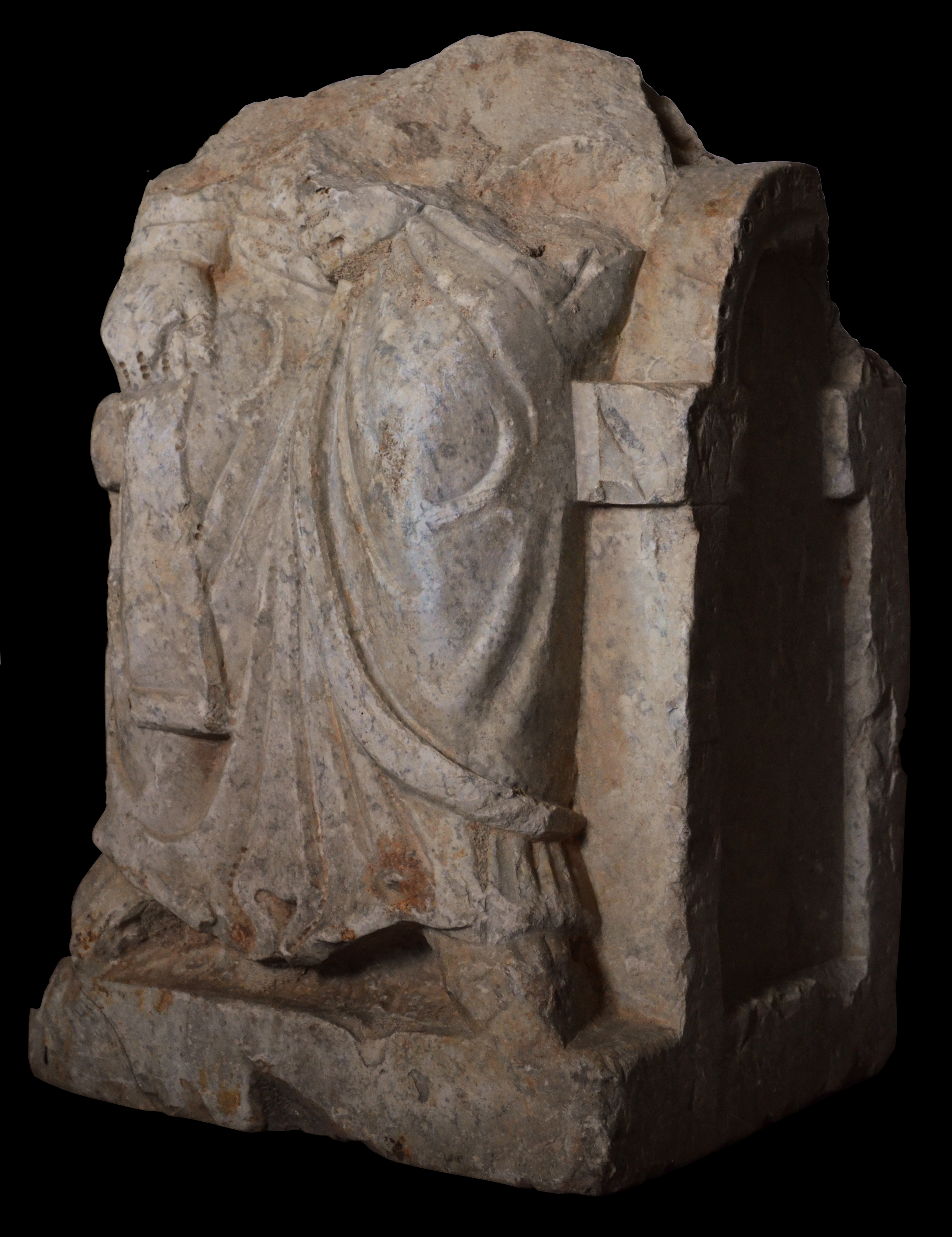 sculpture originally applicable to the pulpit and said due to the school Biduino